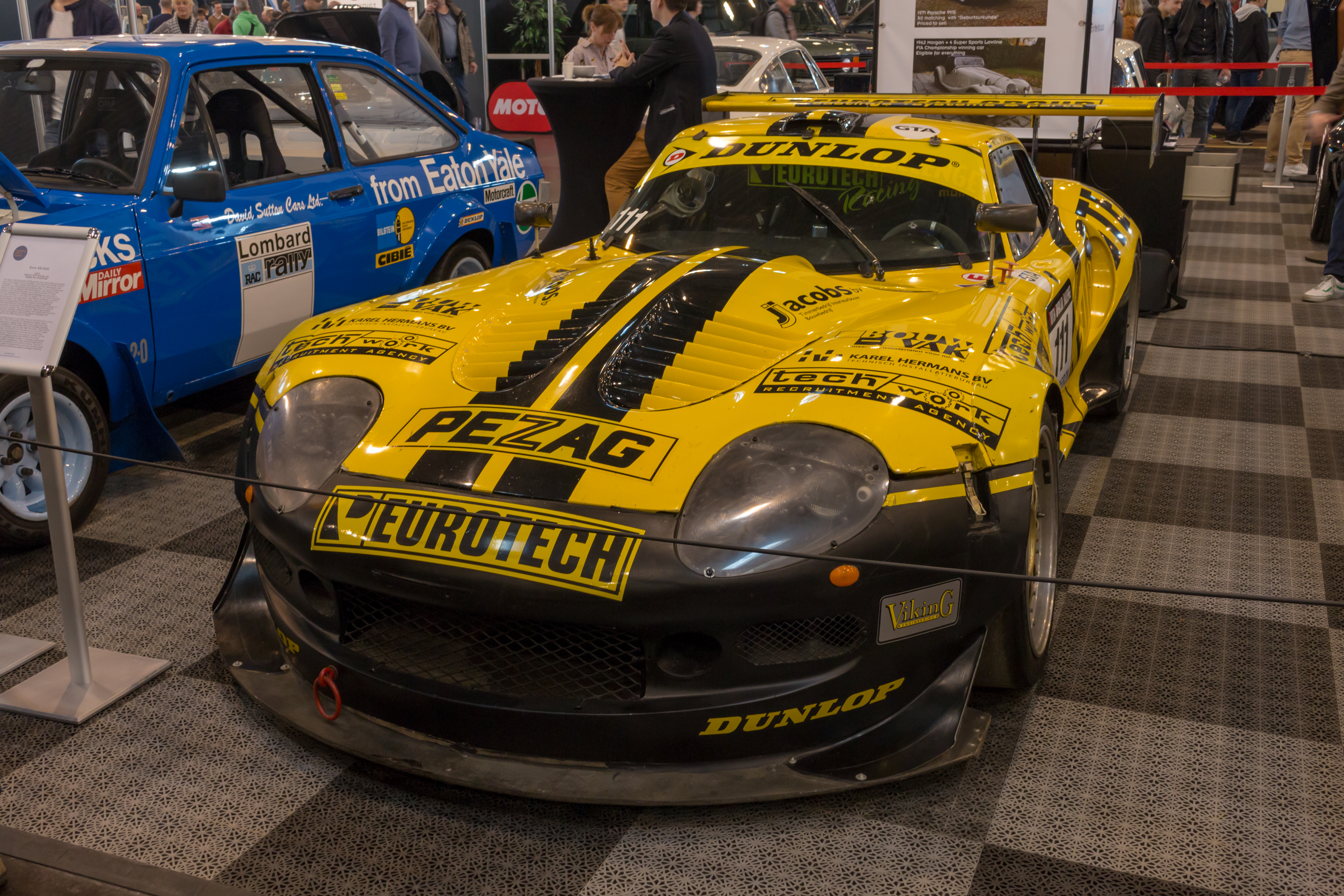 Techno Classica 2018, Essen